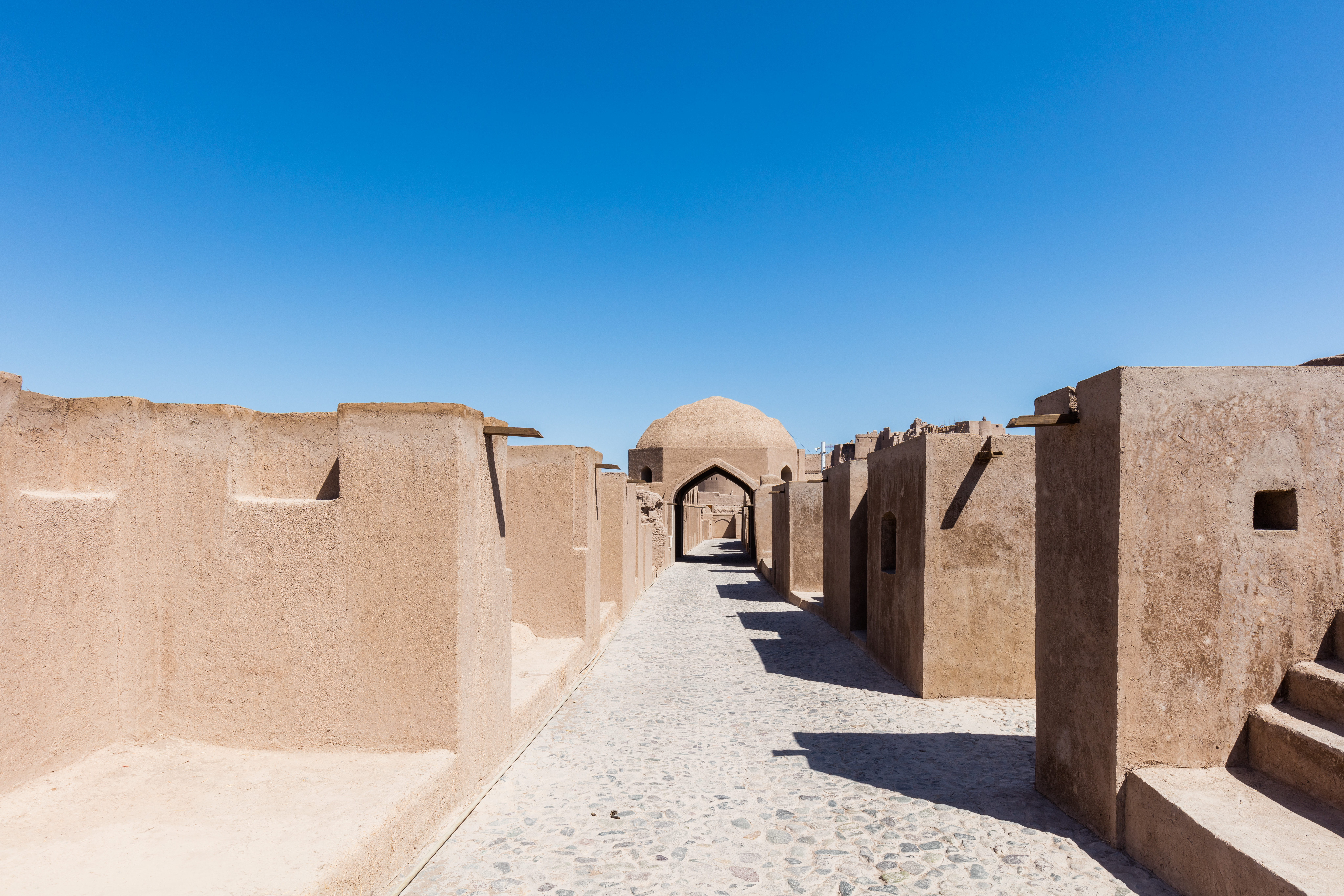 Alley of the Bazaar in Arg-e Bam, or, Bam Citadel, the largest adobe building in the world and an UNESCO world heritage site, located in Bam, Kerman Province, southeastern Iran. The origin of this enormous citadel on the Silk Road can be traced back to the Achaemenid Empire (6th-4th centuries BC) and even beyond. The citadel was destroyed by the devastating 2003 Bam earthquake that cost over 26,000 lives and is being reconstructed since then.